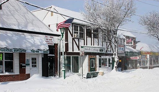 Downtown Massapequa Park, NY in the winter of 2004